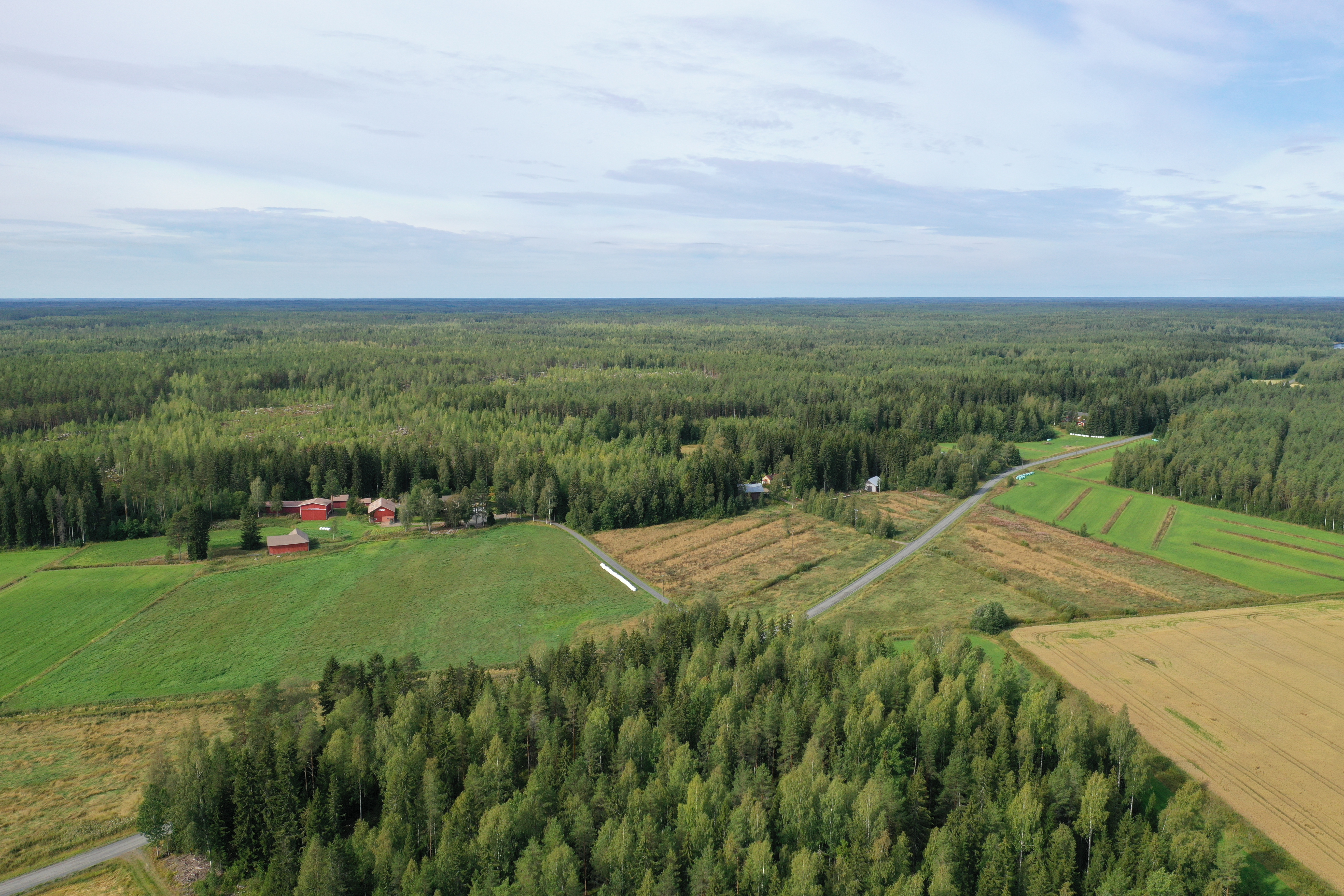 Pyykoskenmaa village in Suodenniemi, Finland